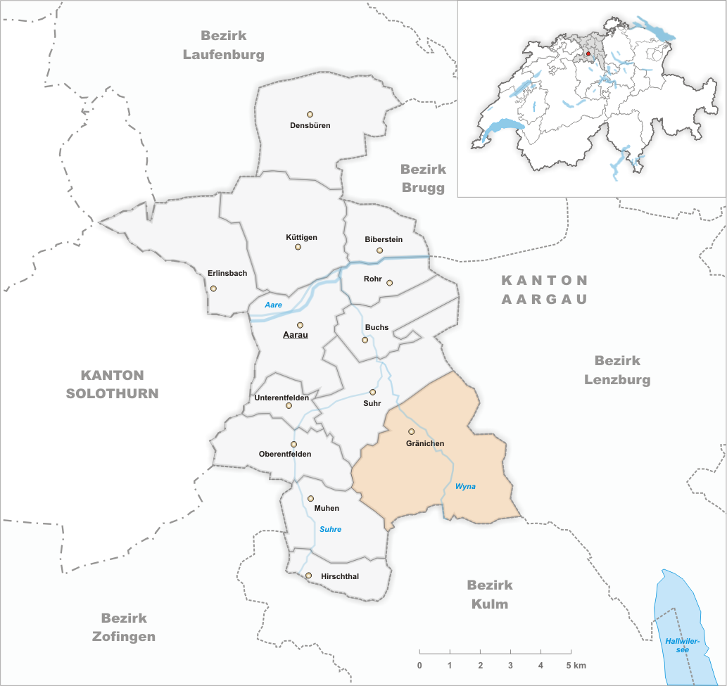 Municipality Gränichen